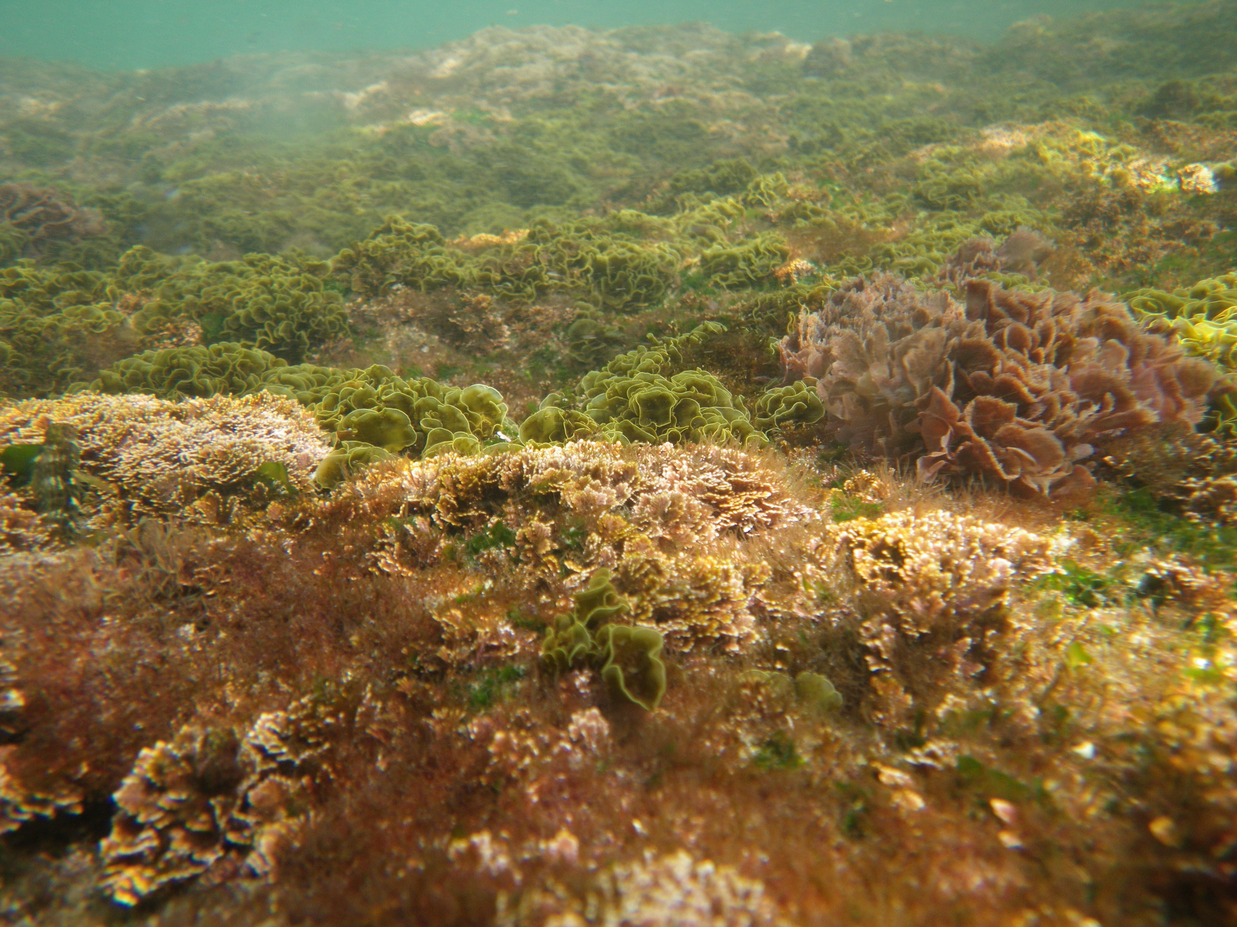 Seabed in the Royal National Park, NSW